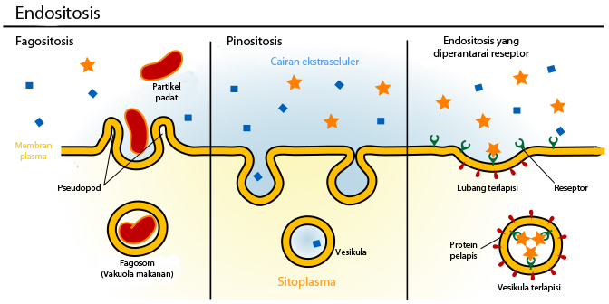 Endocytosis (IPA: [ɛndəʊsaɪˈtəʊsɪs]) is a process whereby cells absorb material (molecules such as proteins) from the outside by engulfing it with their cell membrane. It is used by all cells of the body because most substances important to them are polar and consist of big molecules, and thus cannot pass through the hydrophobic plasma membrane.